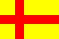 Flag of the Earldom of Orkney